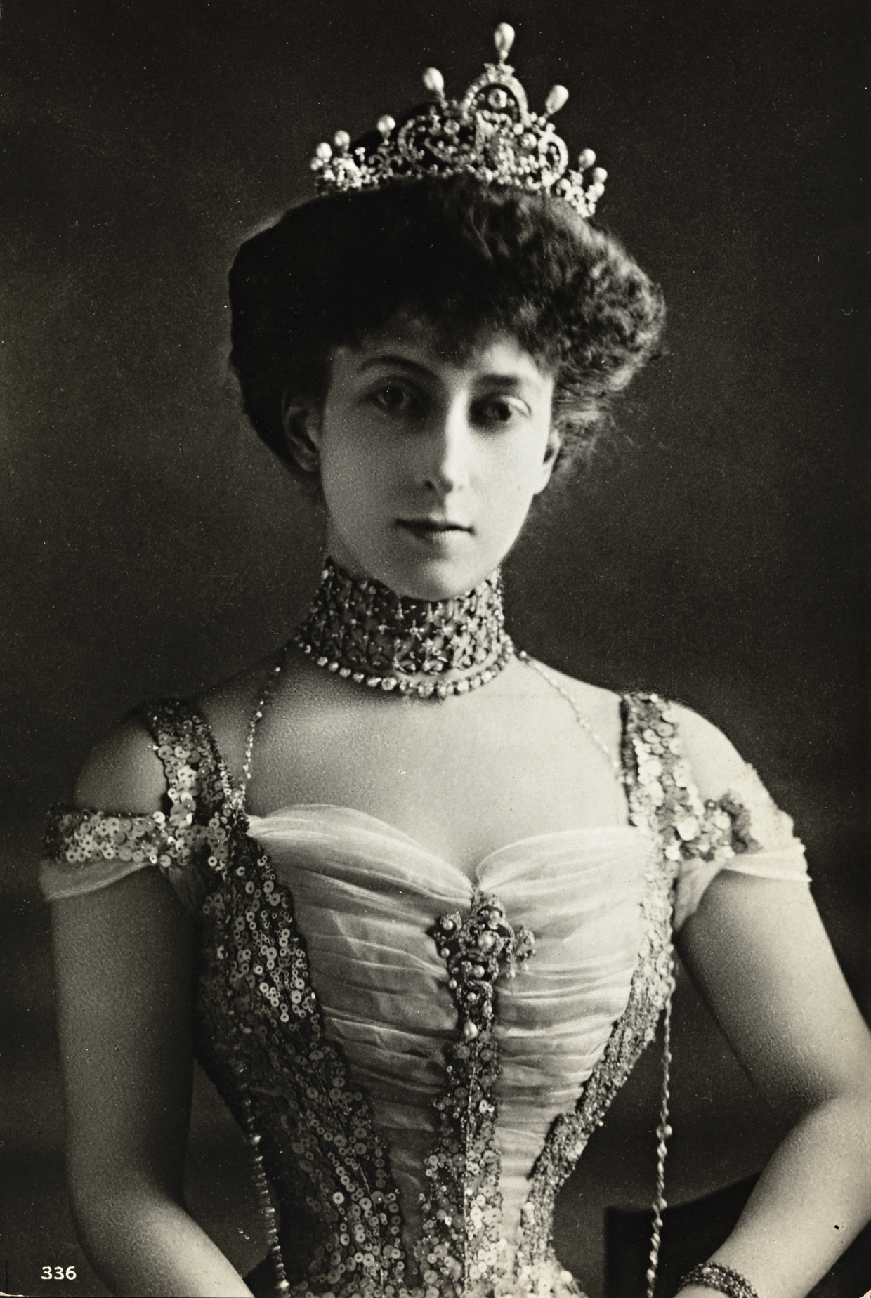 Tittel / Title: Portrett av dronning Maud (1869-1938) Motiv / Motif: Postkort. Dato / Date: ca 1905 Fotograf / Photographer: ukjent / unknown Utgiver / Publisher: Alex. Vincent's Kunstforlag Eier / Owner Institution: Nasjonalbiblioteket / National Library of Norway Lenke / Link: Bildesignatur / Image Number: blds_04732